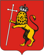 Vladimir (Vladimir oblast), coat of arms